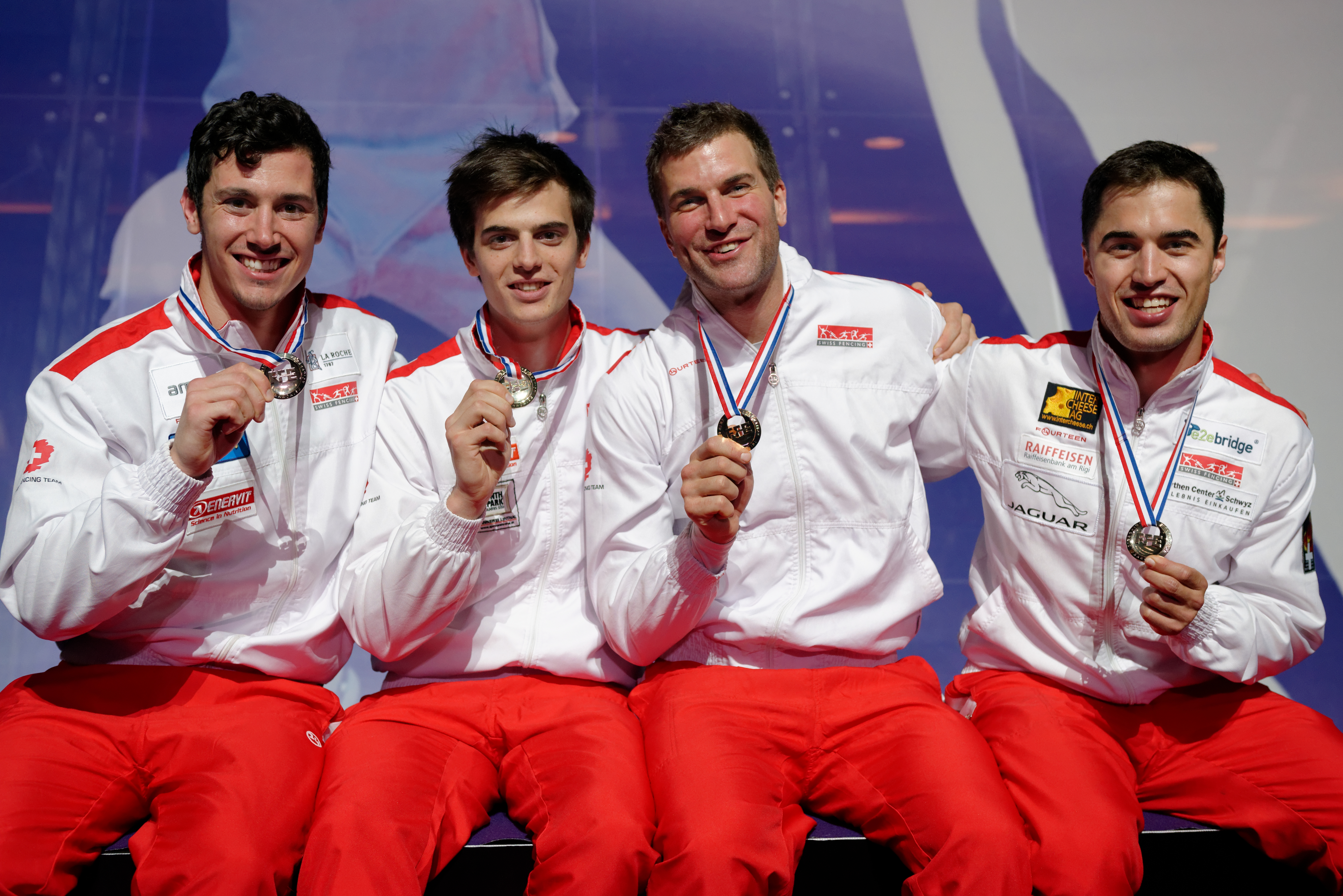 Switzerland (from left to right, Fabian Kauter, Michele Niggeler, Benjamin Steffen, and Max Heinzer) on the podium of the 2014 Challenge RFF-Trophée Monal, a men's épée World Cup event, on 4 May 2014.